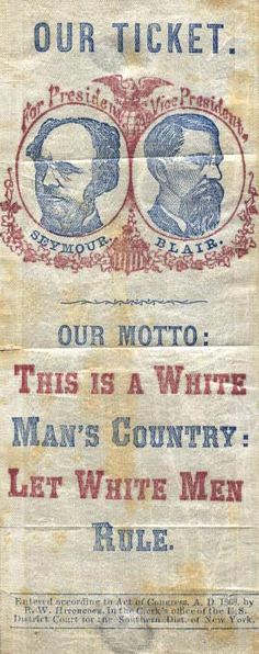 1868 Democratic ribbon proclaiming support for the Seymour-Blair ticket with the racist slogan "This is A White Man's Country: Let White Men Rule."